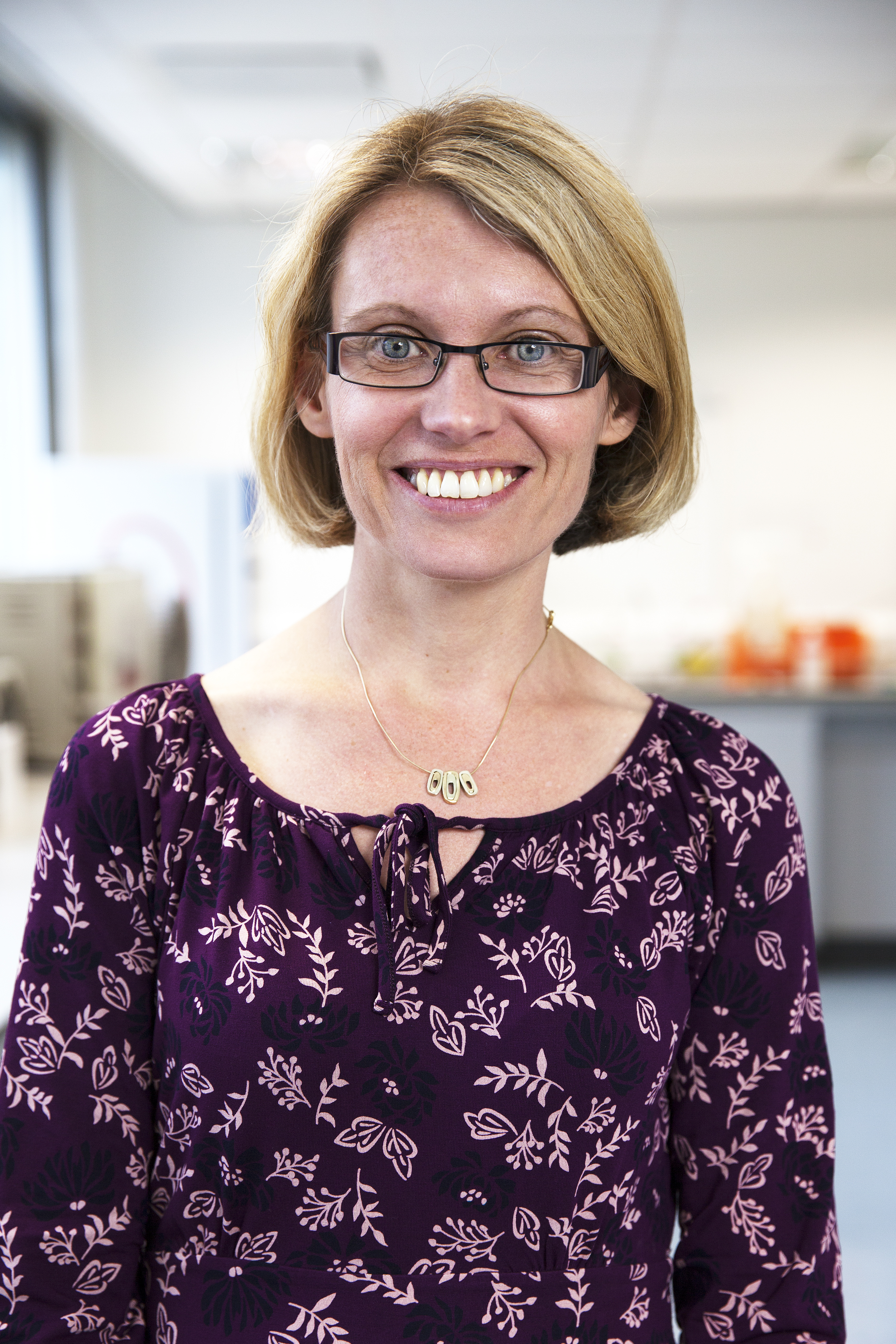 Aline Miller in Manchester BIOGEL lab